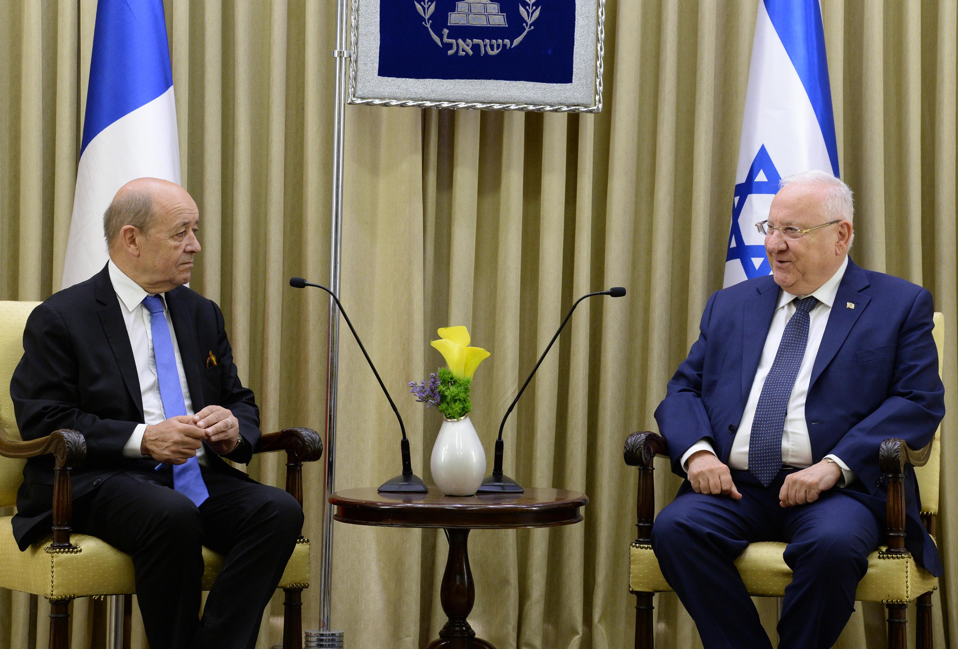 President of Israel, Reuven Rivlin, at a working meeting with the French Minister of Europe and Foreign Affairs, Jean-Yves Le Drian, who visited Israel. Monday, March 26, 2018. Photo credit: Mark Neyman / GPO. Depicted people: Reuven Rivlin and Jean-Yves Le Drian